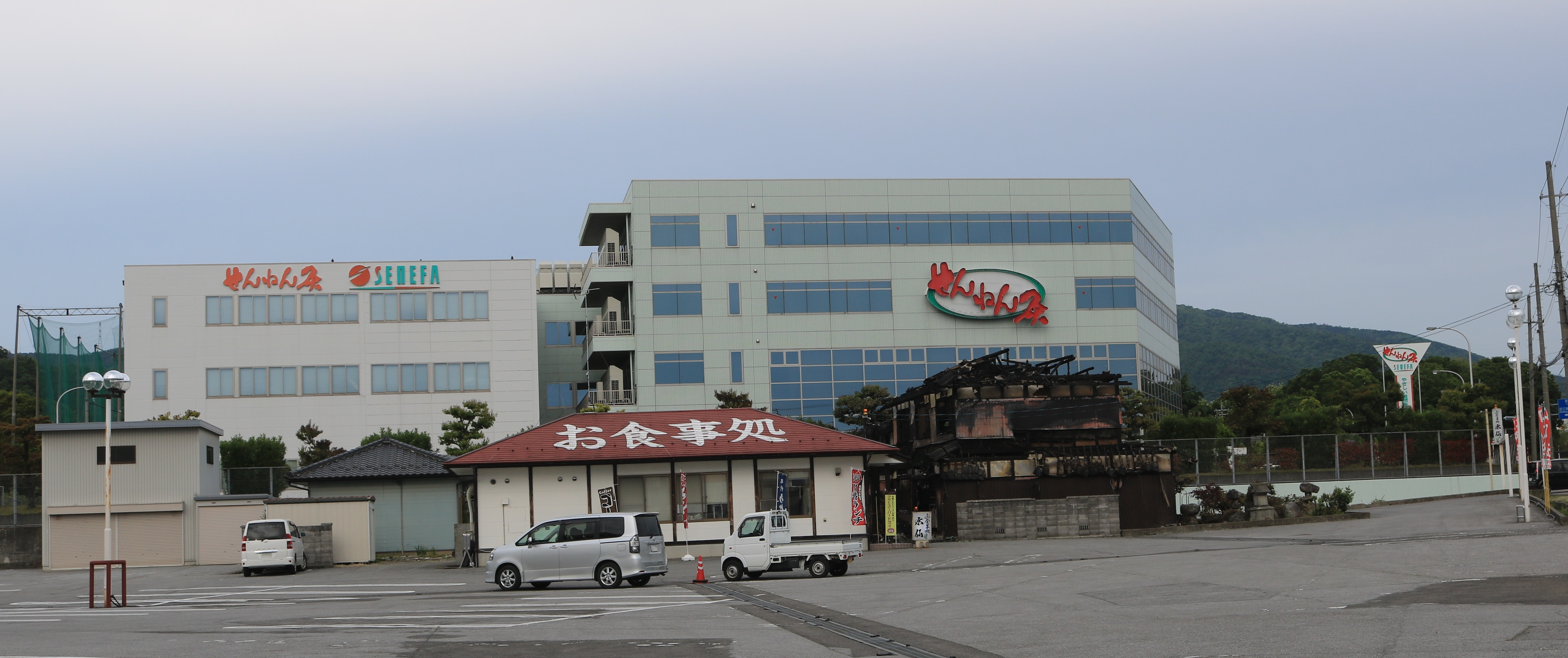 SENEFA CORPORATION. in Nagahama, Shiga prefecture, Japan.